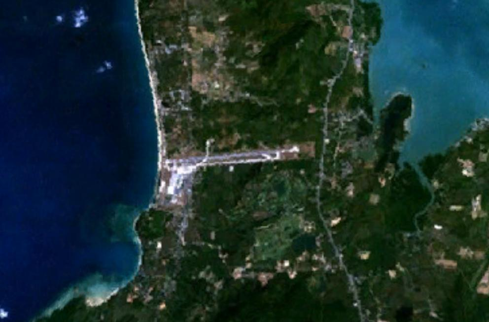 Computer generated satellite view of Phuket International Airport in Thailand